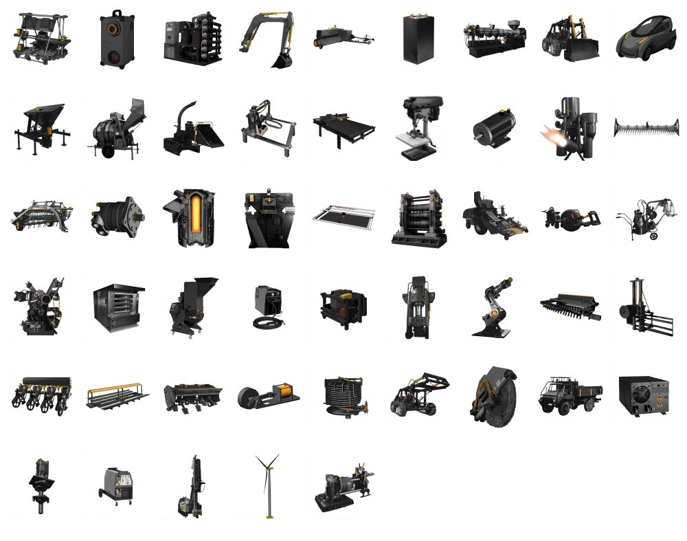 Depiction of the 50 machines composing the "Global Village Construction Set" by the "Open Source Ecology" project